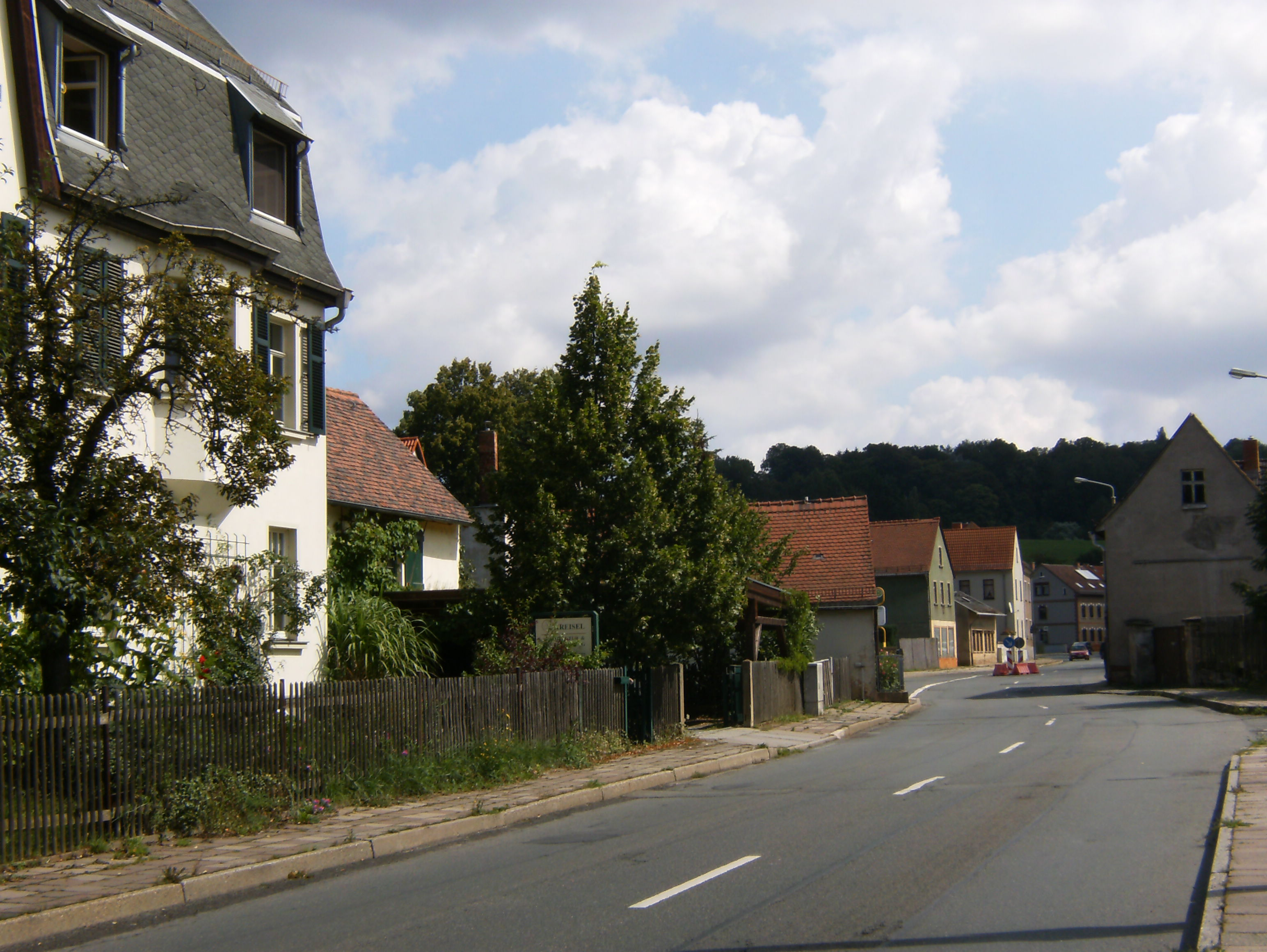 Gera Scheubengrobsdorf, high street.